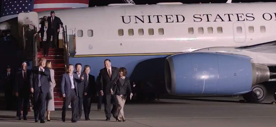 Trump Greets Americans Released by North Korea on 10 May 2018 _Video screen capture